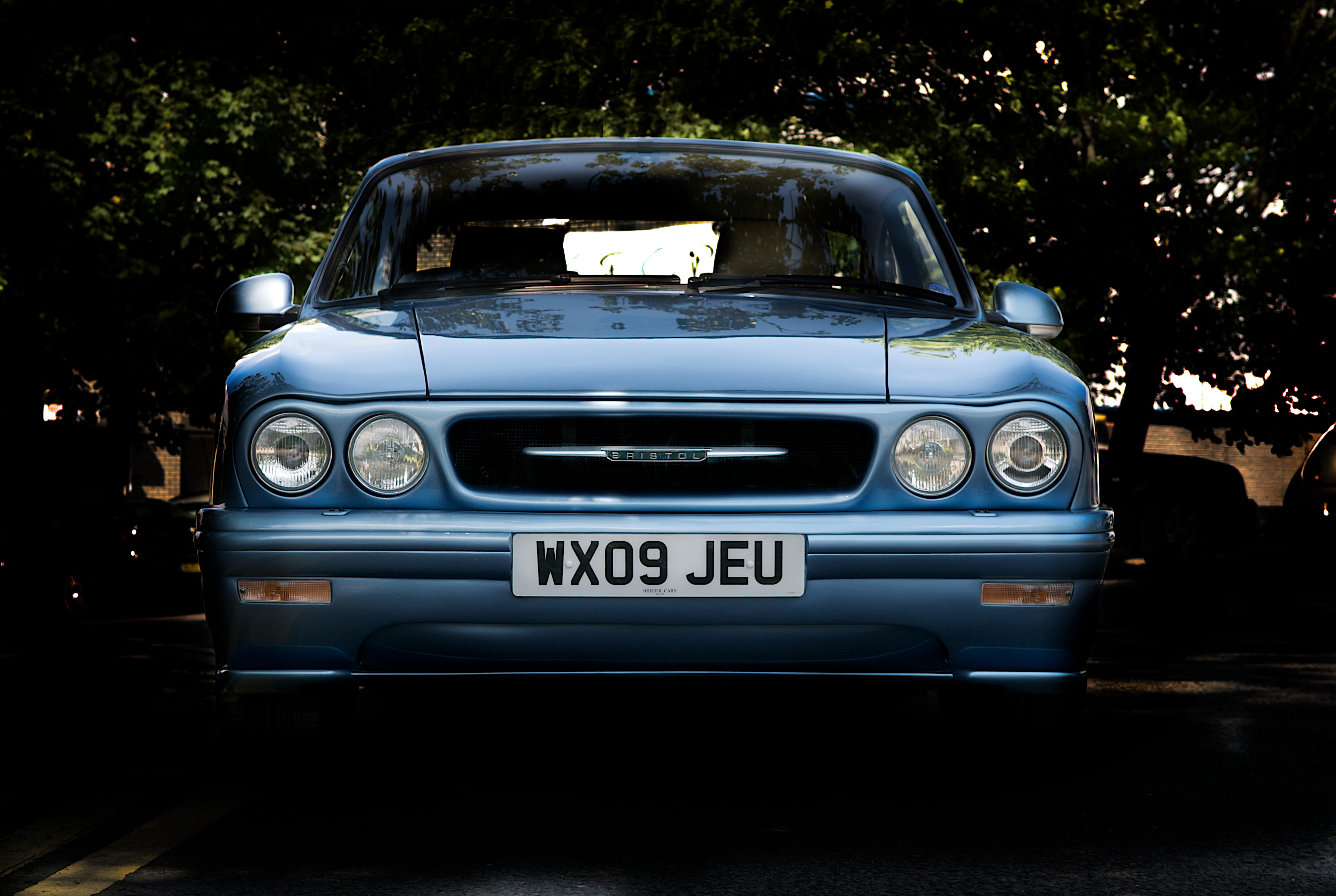 Bristol Blenheim 4